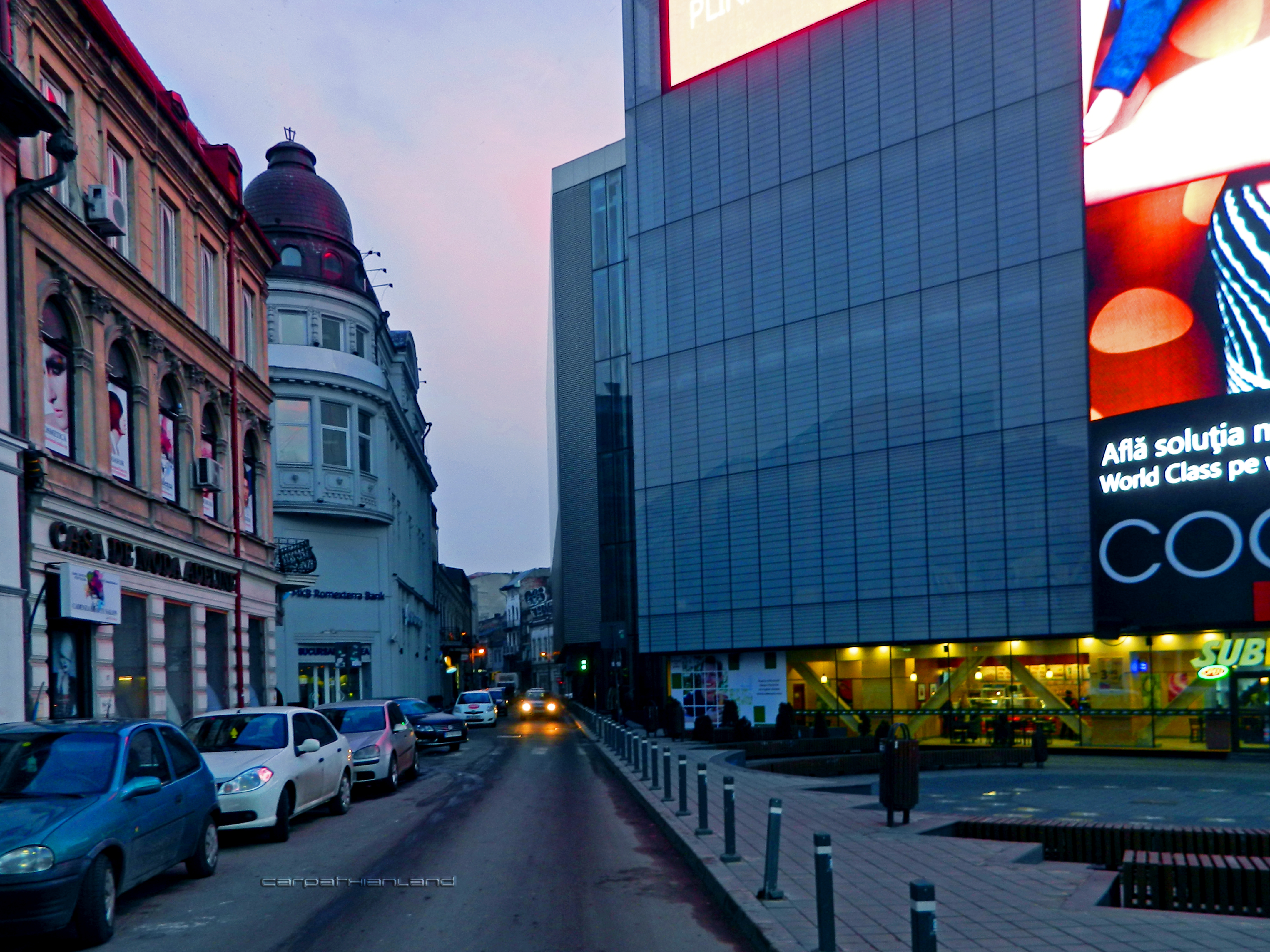 Cocor Shop, Bucharest